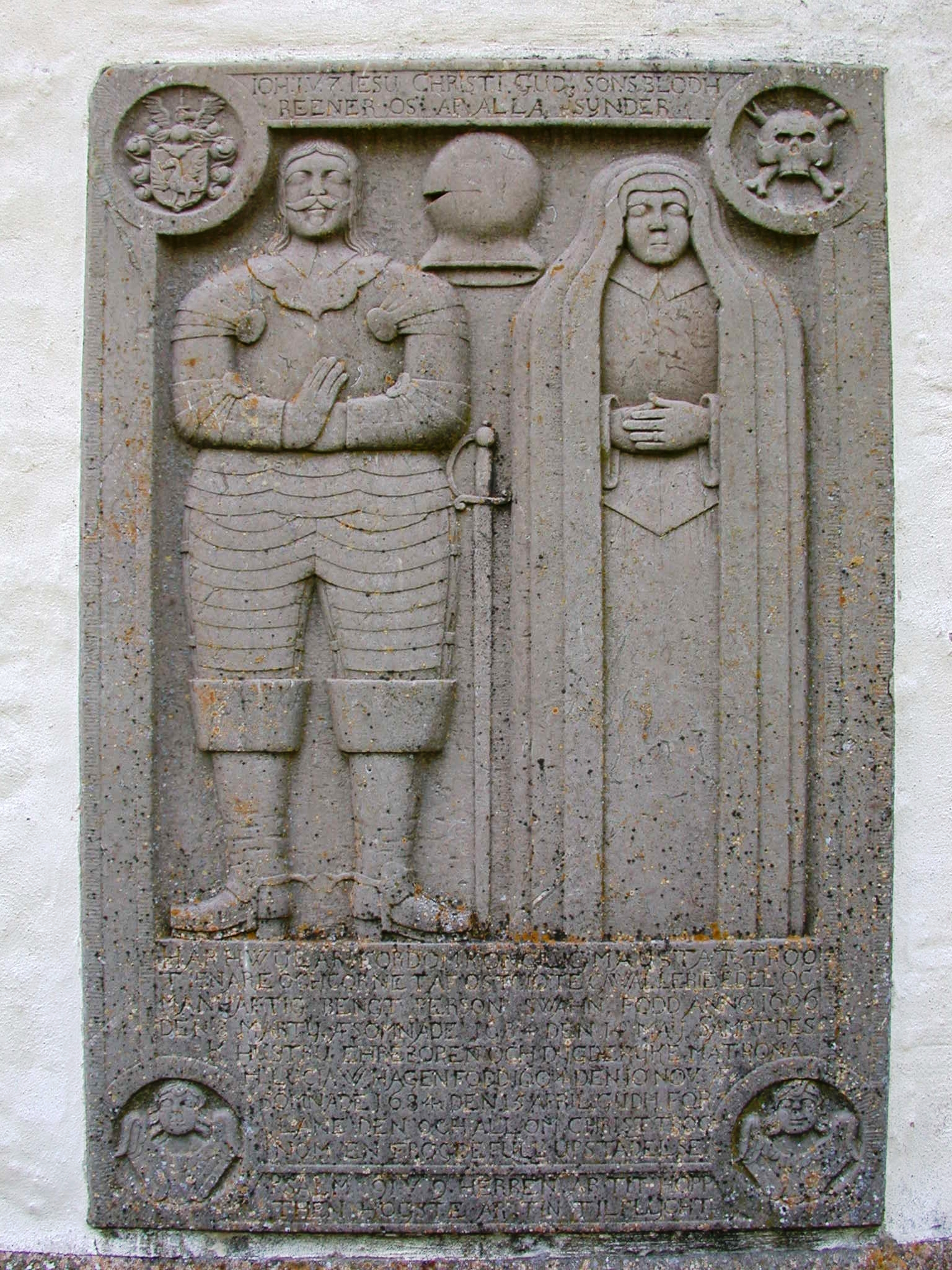 Tombstone used as a part of the church wall, Strå church, Sweden. Photo by Riggwelter, July 20, 2006.